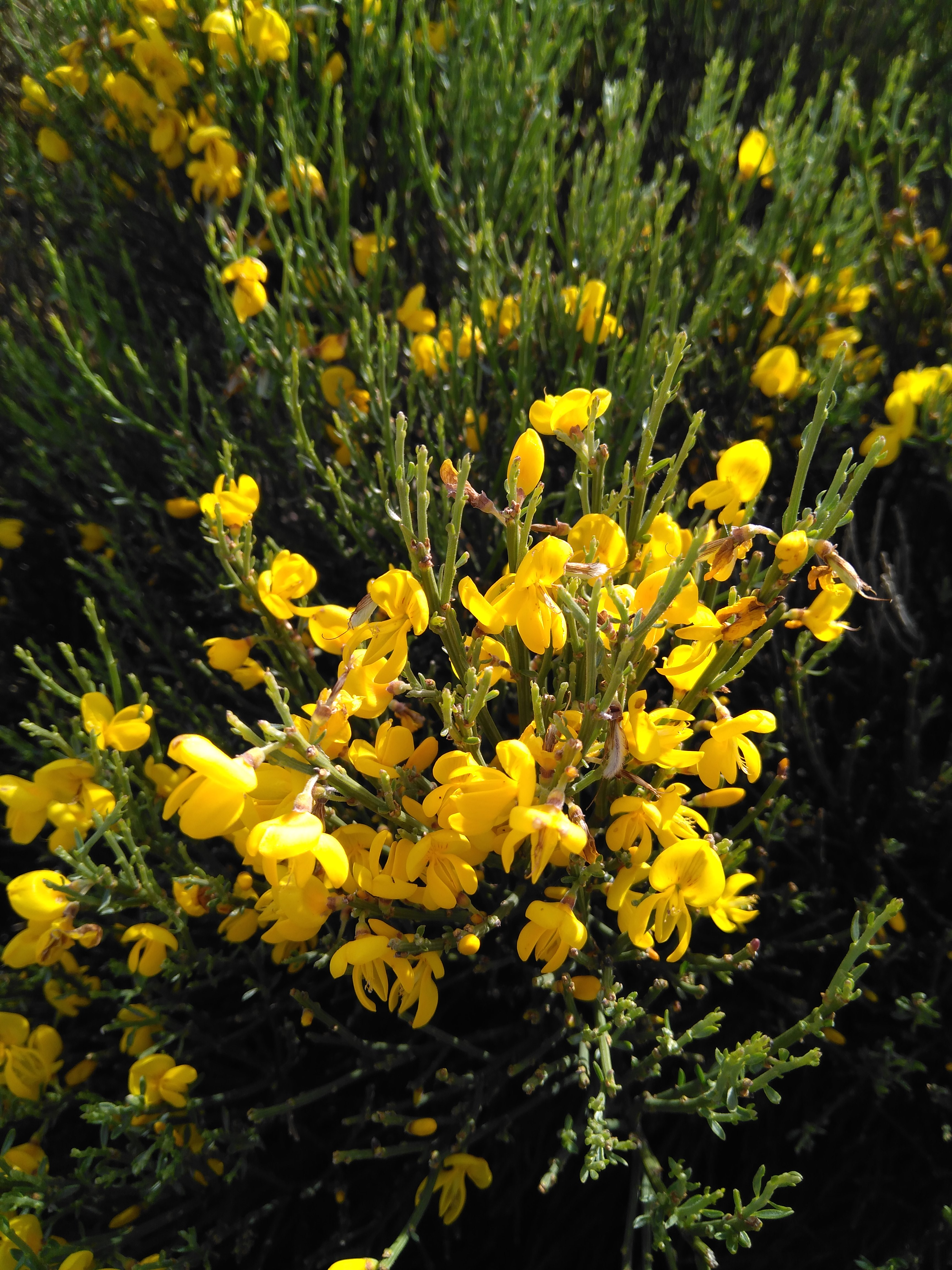 Cytisus oromediterraneus (Pyrenean broom, provence broom) in Bustarviejo, Community of Madrid. View of the flowers and legumes.